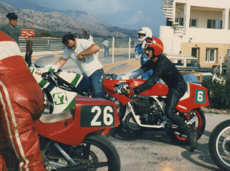 Jordi Fornas on his Yamaha-Montesa #6, about to hit the track circuit of Calafat (1984)